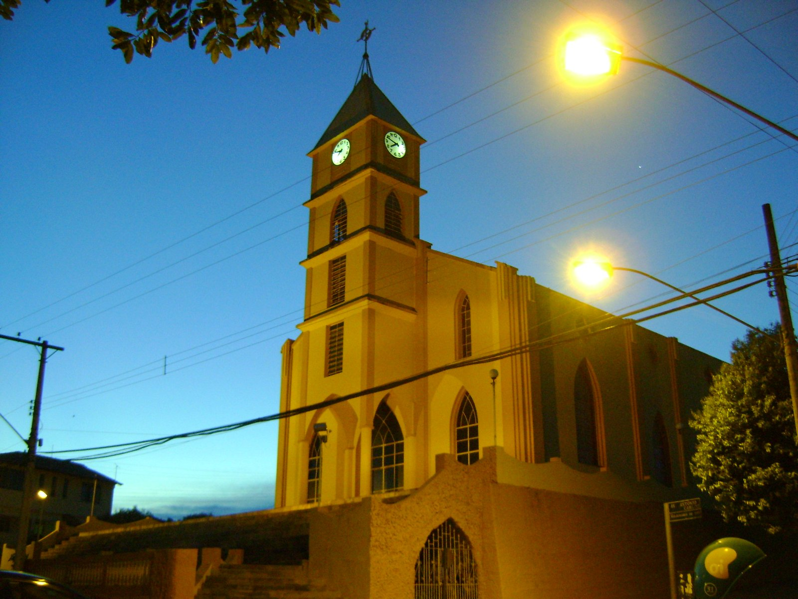 Church of São Manoel Mutum